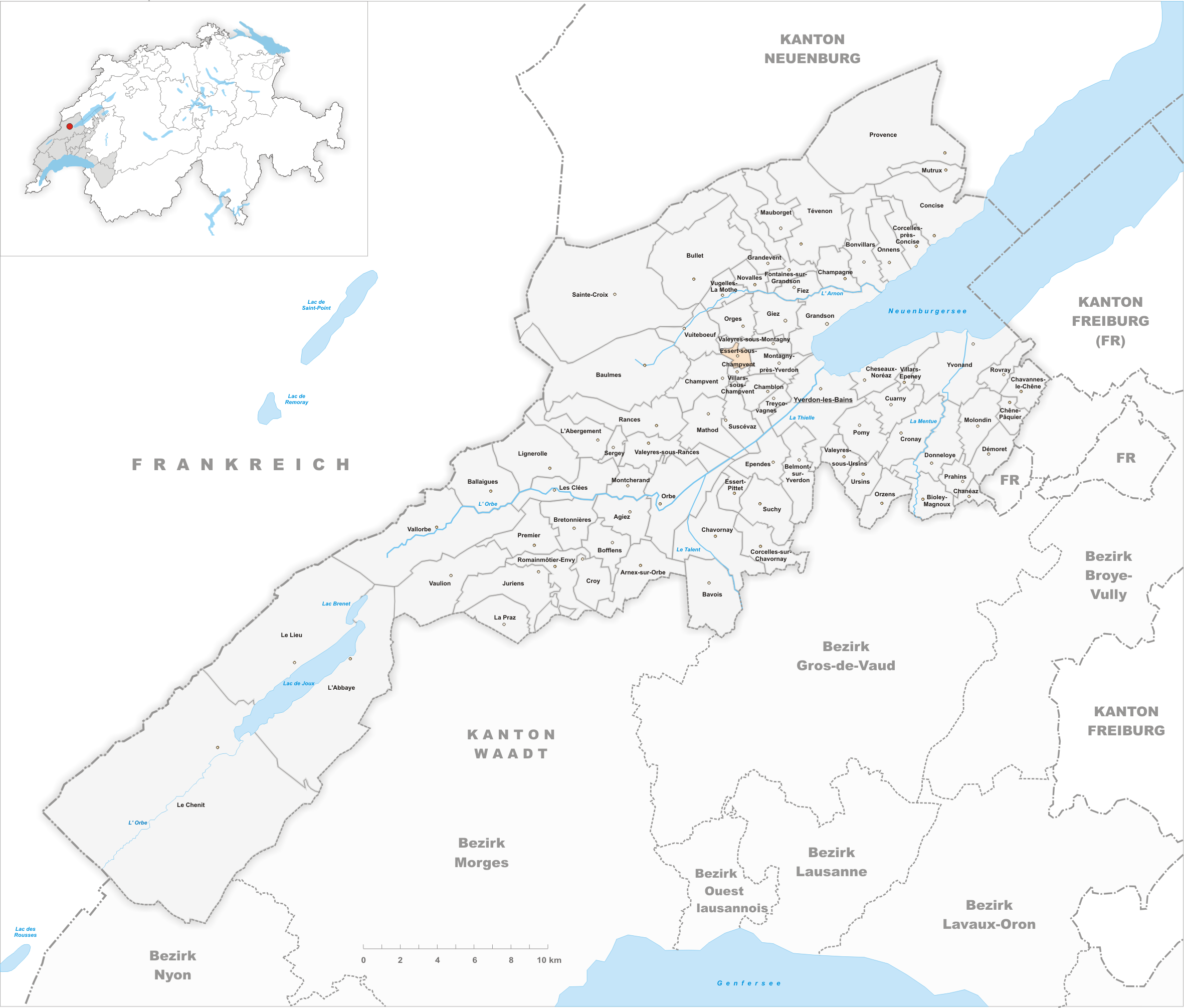 Municipality Essert-sous-Champvent